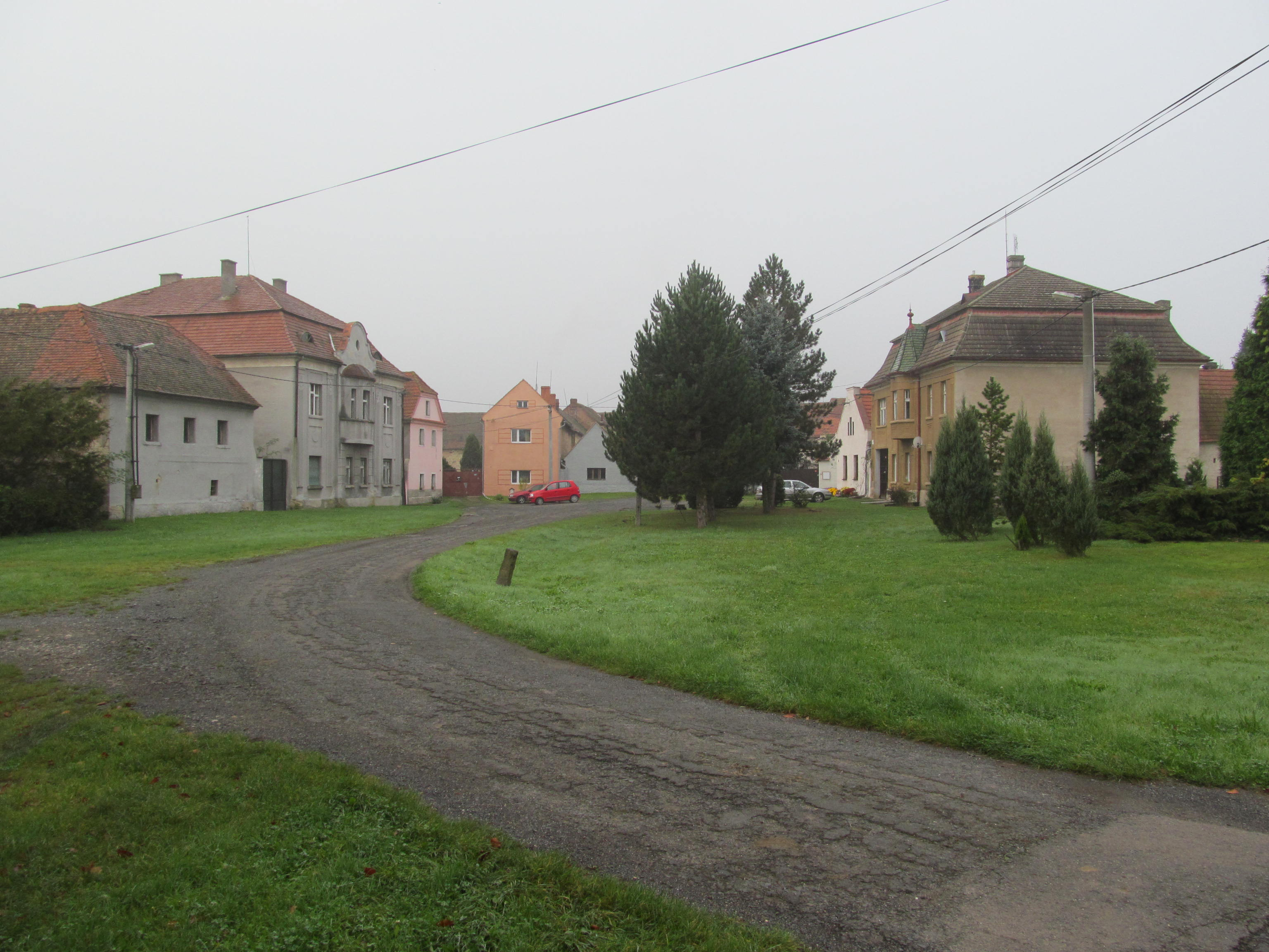 Village square in Levonice